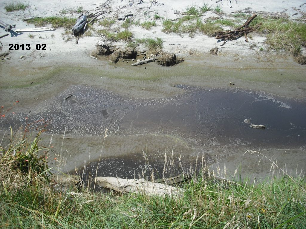 Dairy discharge creating water pollution